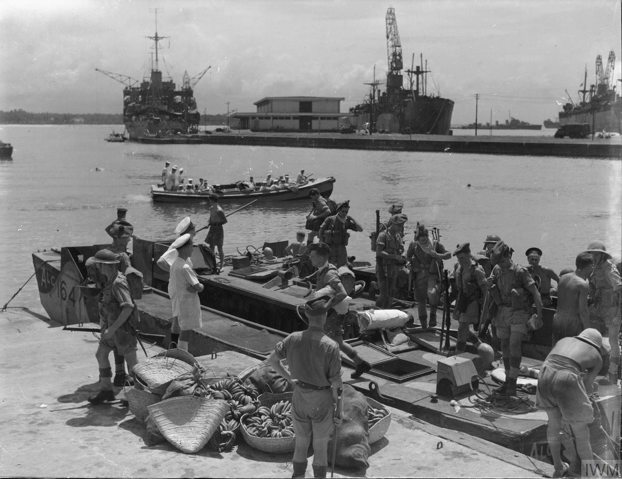 IWM caption : Troops disembarking from a landing craft assault (LCA 164) in Tamatave harbour, Madagascar's principle port.